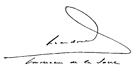 Signature of Gilbert Grandval